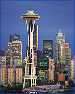 Seattle from Kerry Park